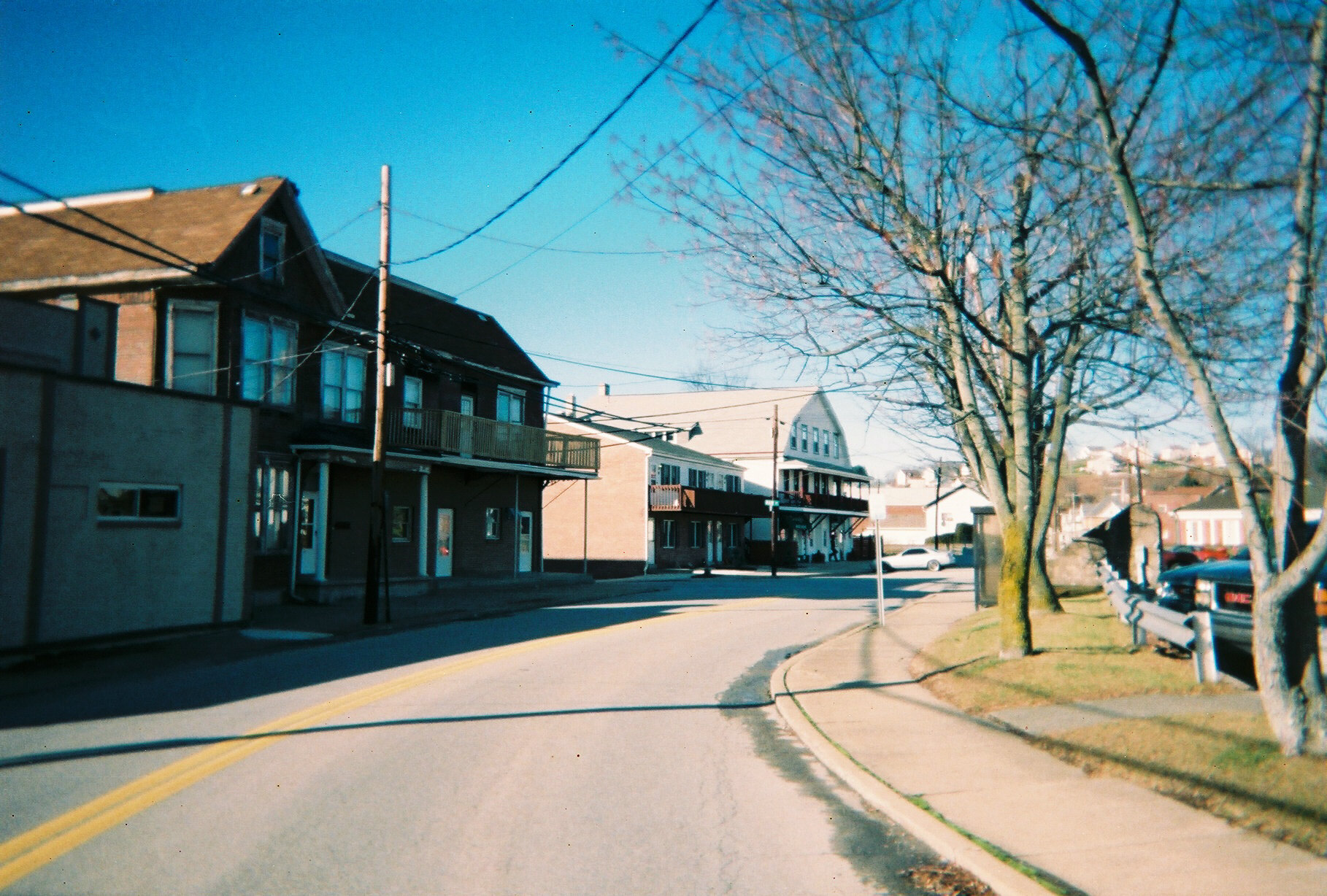 Business district of Manor, Pennsylvania (Race Street)